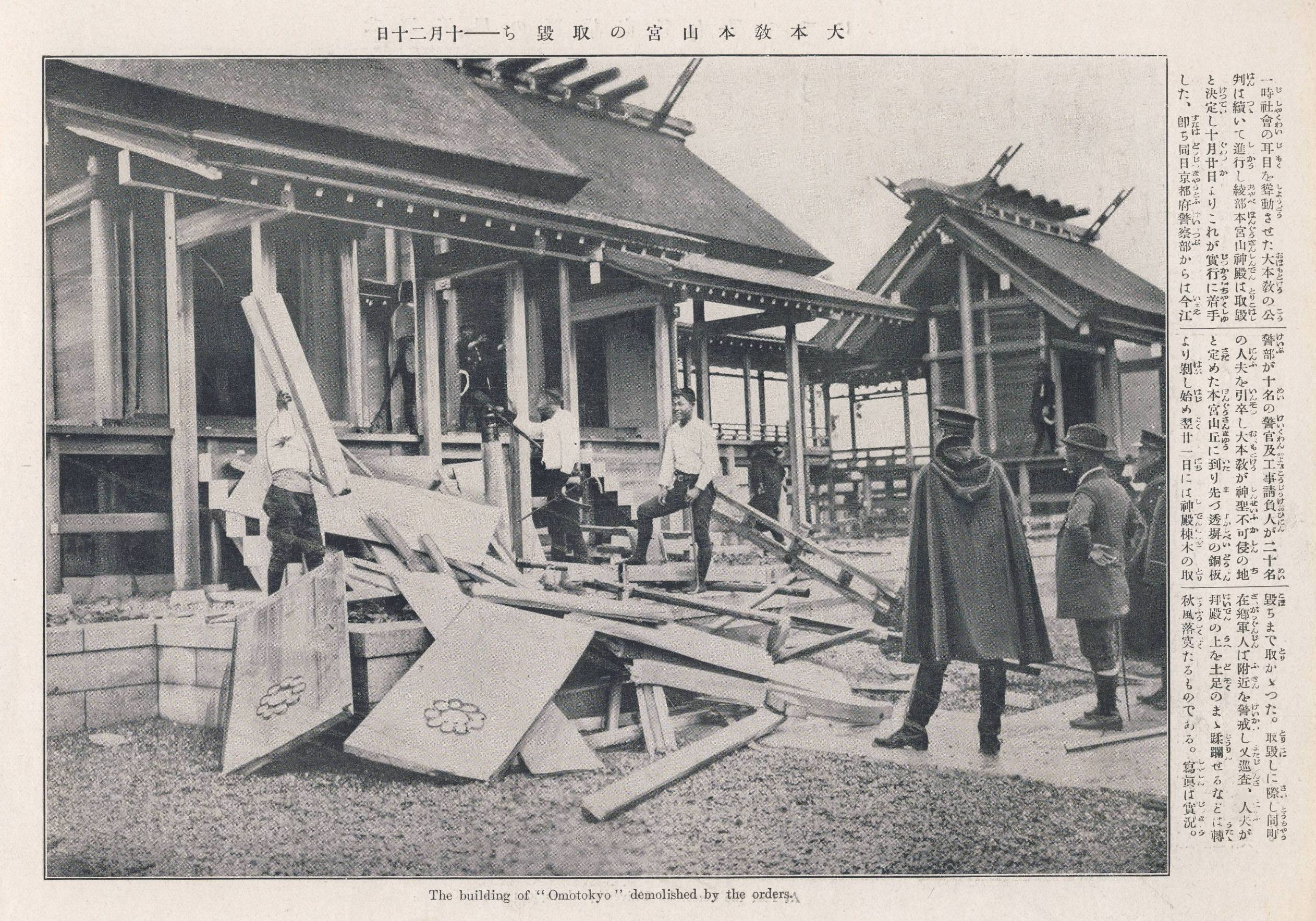 "The building of Omotokyo demolished by the orders."